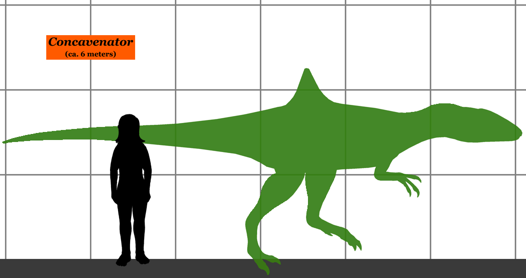 Size comparioson between the theropod dinosaur Concavenator and a human.